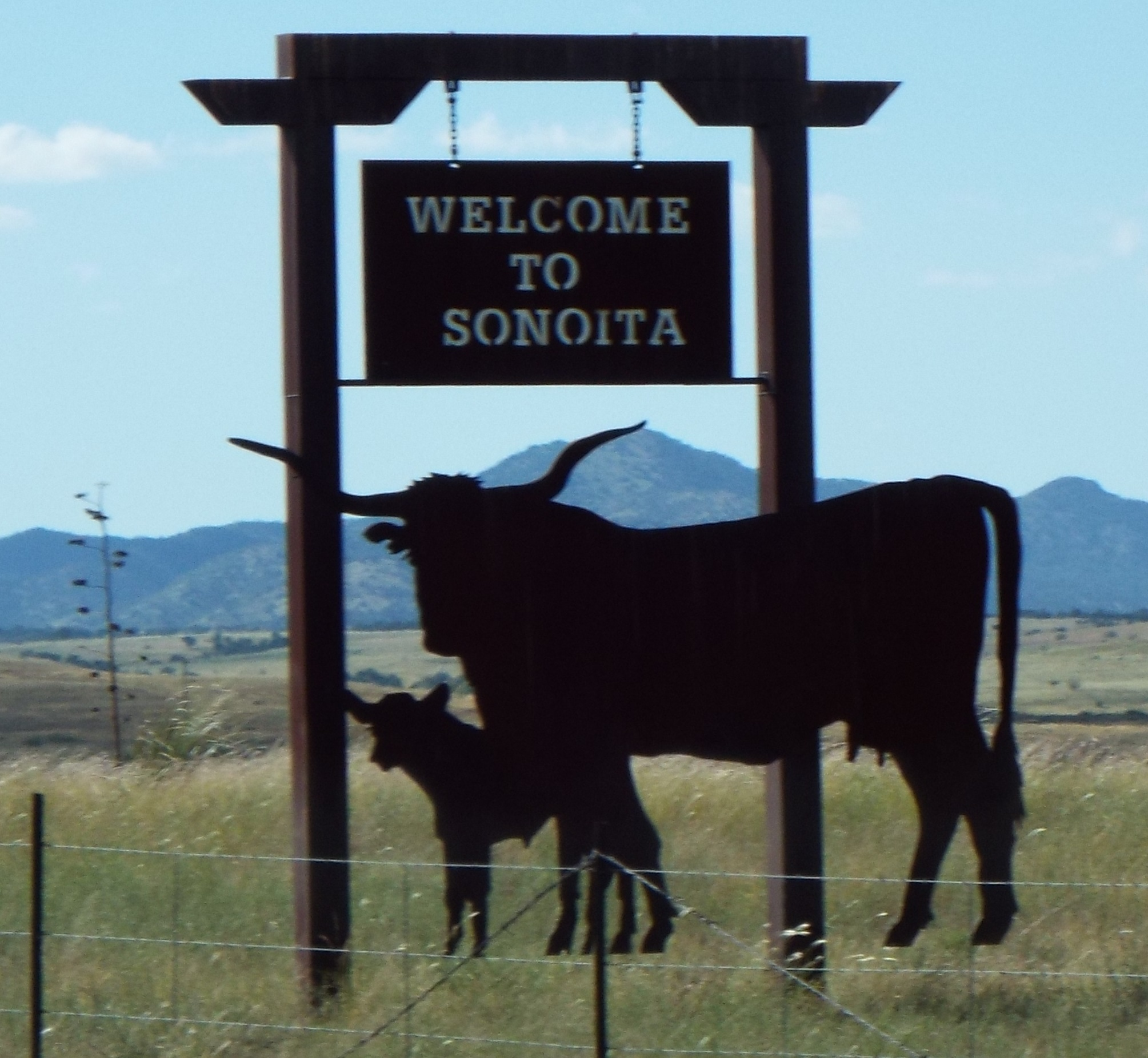 Welcome to the town of Sonoita, Arizona sign